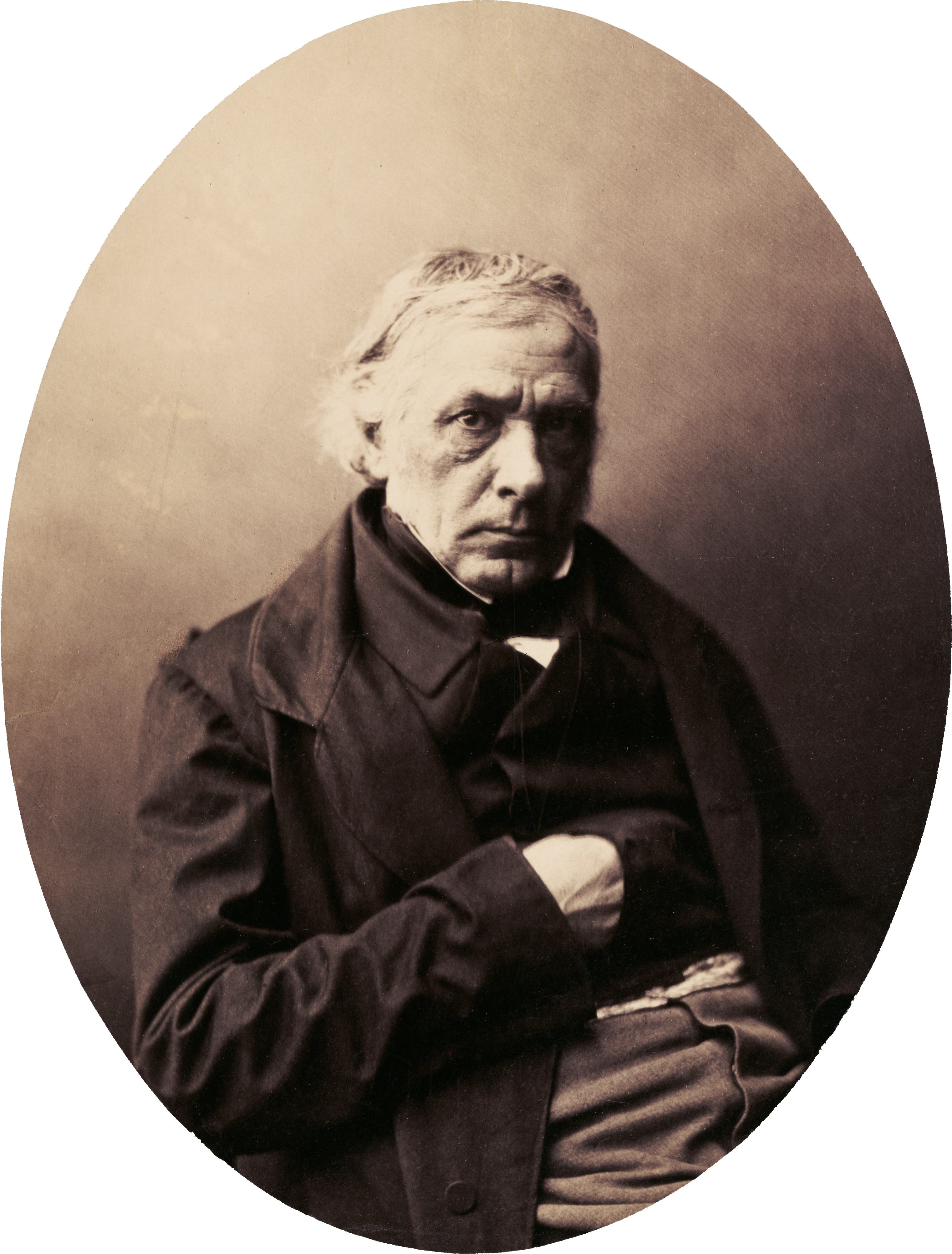 Portrait of Victor Cousin